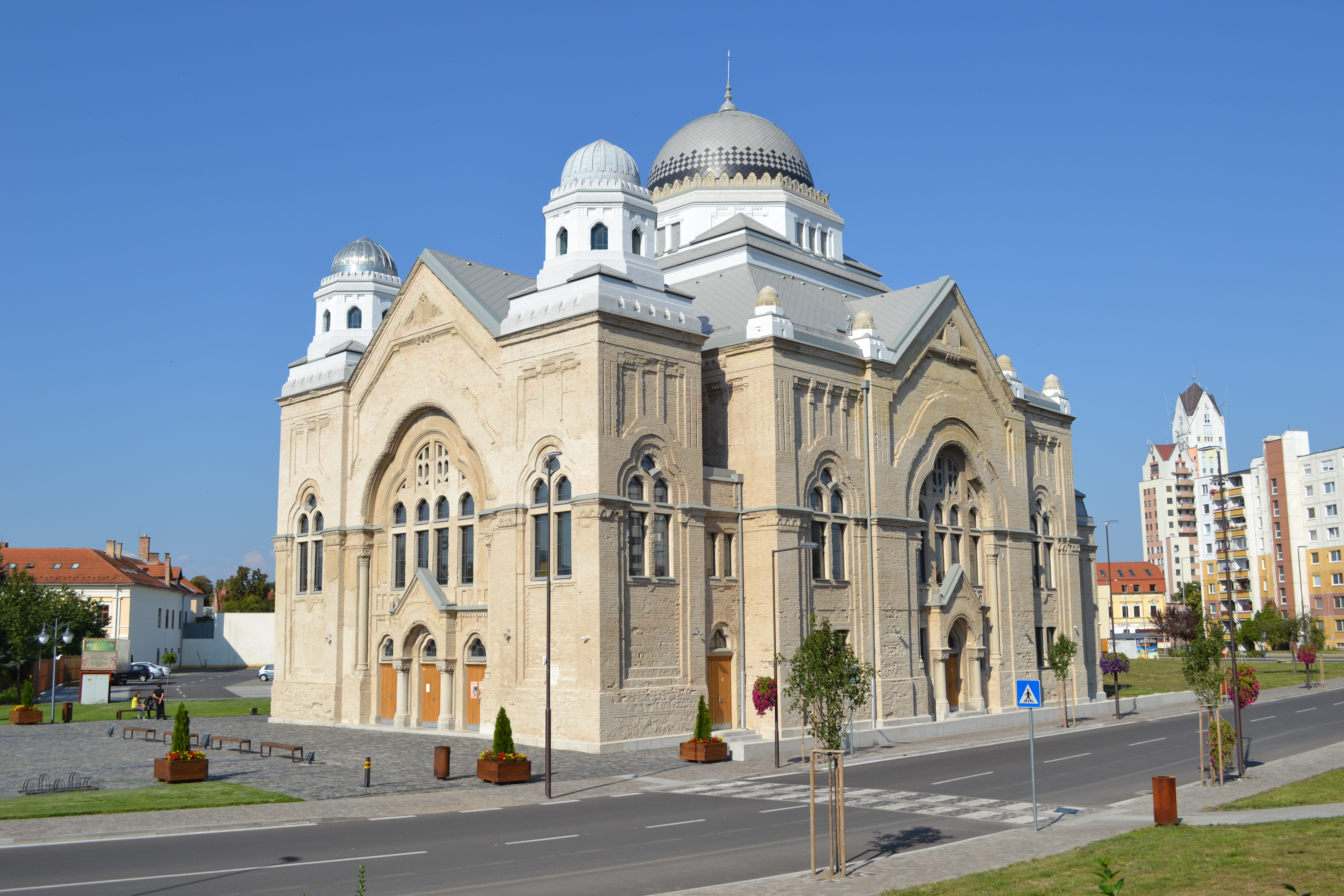 Synagogue has been built between 1923-1925 on the site of an earlier Moorish-style building from 1863. It was designed by Hungarian architect Lipót Baumhorn. It was consecrated on 9 of August 1925. It is ranked among the largest synagogues in Europe.